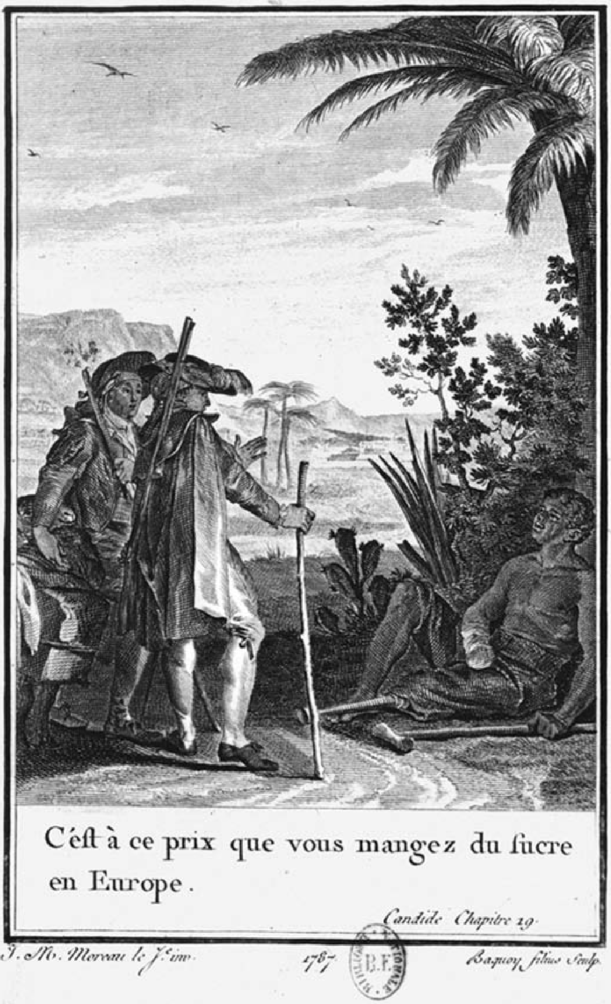 This engraving is from Voltaire's Candide: it depicts the scene where Candide and Cacambo meet a maimed slave of a sugar mill near Surinam. Its caption reads in English, "It is at this price that you eat sugar in Europe"; this line was said by the slave in the text. The "negro" has had his hand cut off for getting a finger stuck in a millstone and his leg removed for trying to run away.